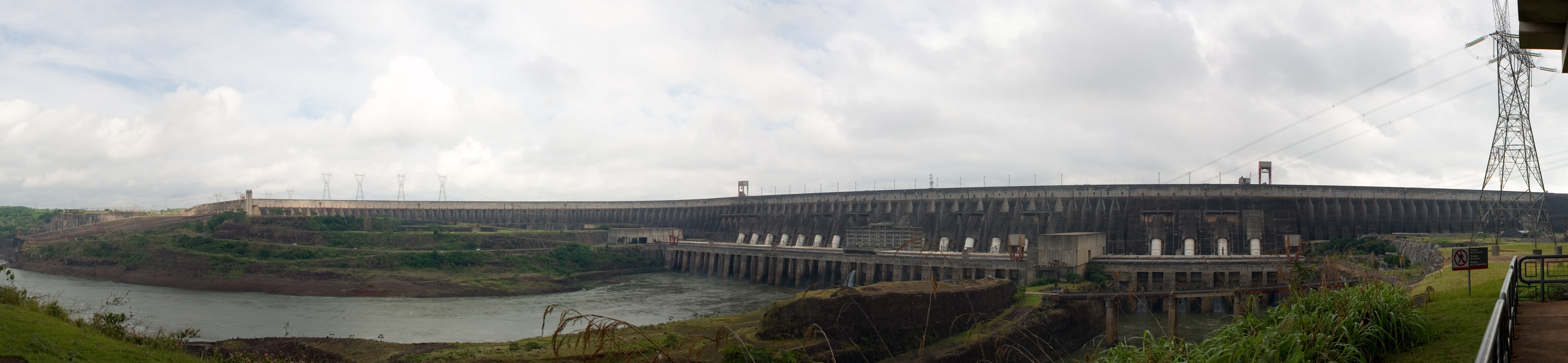 This is 4 photos I took of the dam stitched together using Adobe Photoshop's automatic stitching tools.